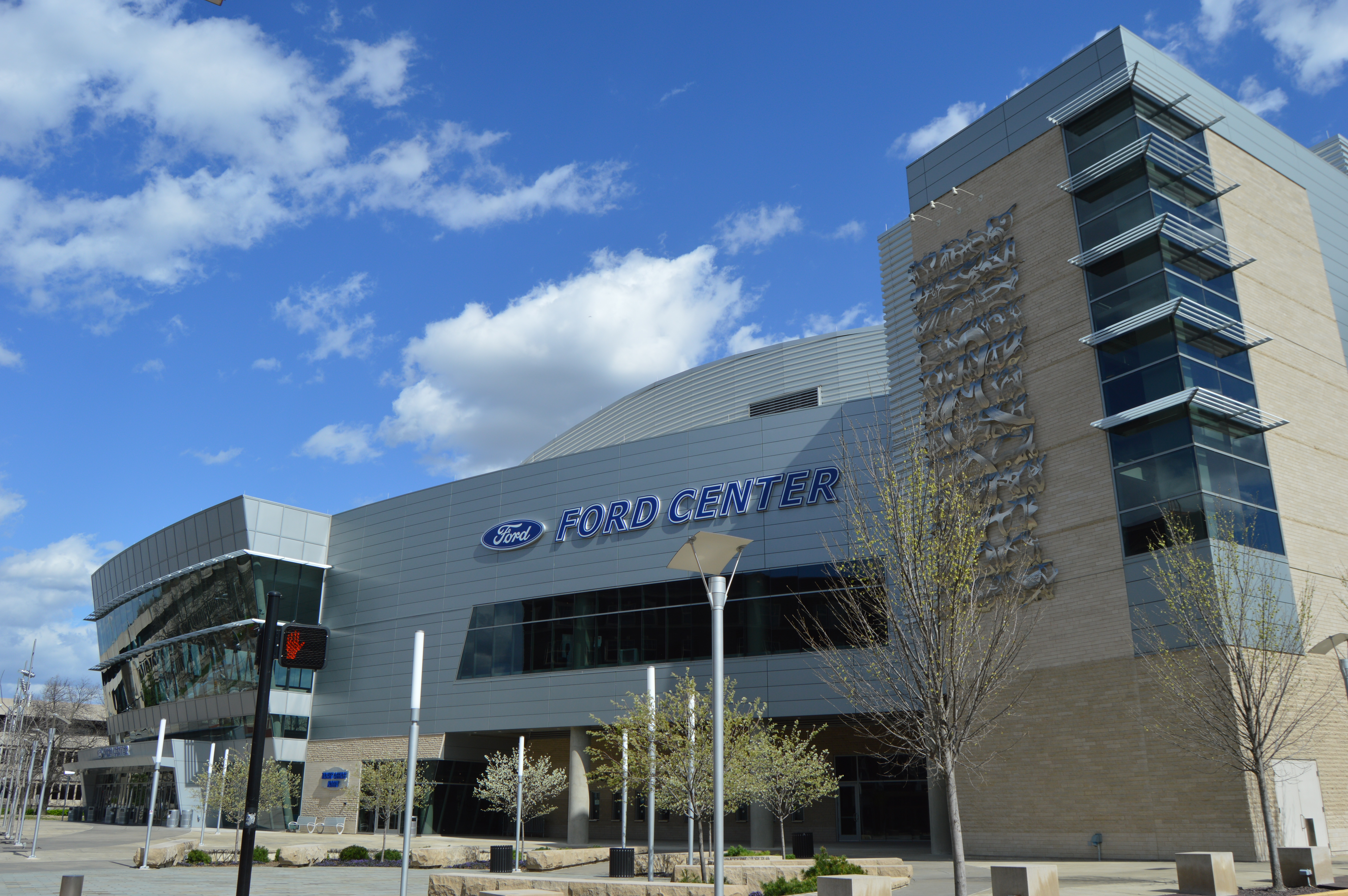 Front of the Ford Center, located on Main Street between Sixth and MLK (Seventh) Streets in downtown Evansville, Indiana, United States. It was built in 2011.